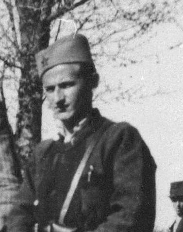 Nikola Popović (1916-2005)